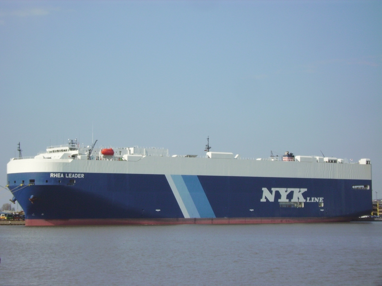 The car carrier Rhea leader from the Japanese company NYK in the port of Bremerhaven, Germany IMO Number: 9355214 MMSI Number: 432664000 Callsign: 7JDK Length: 200 m Beam: 32 m